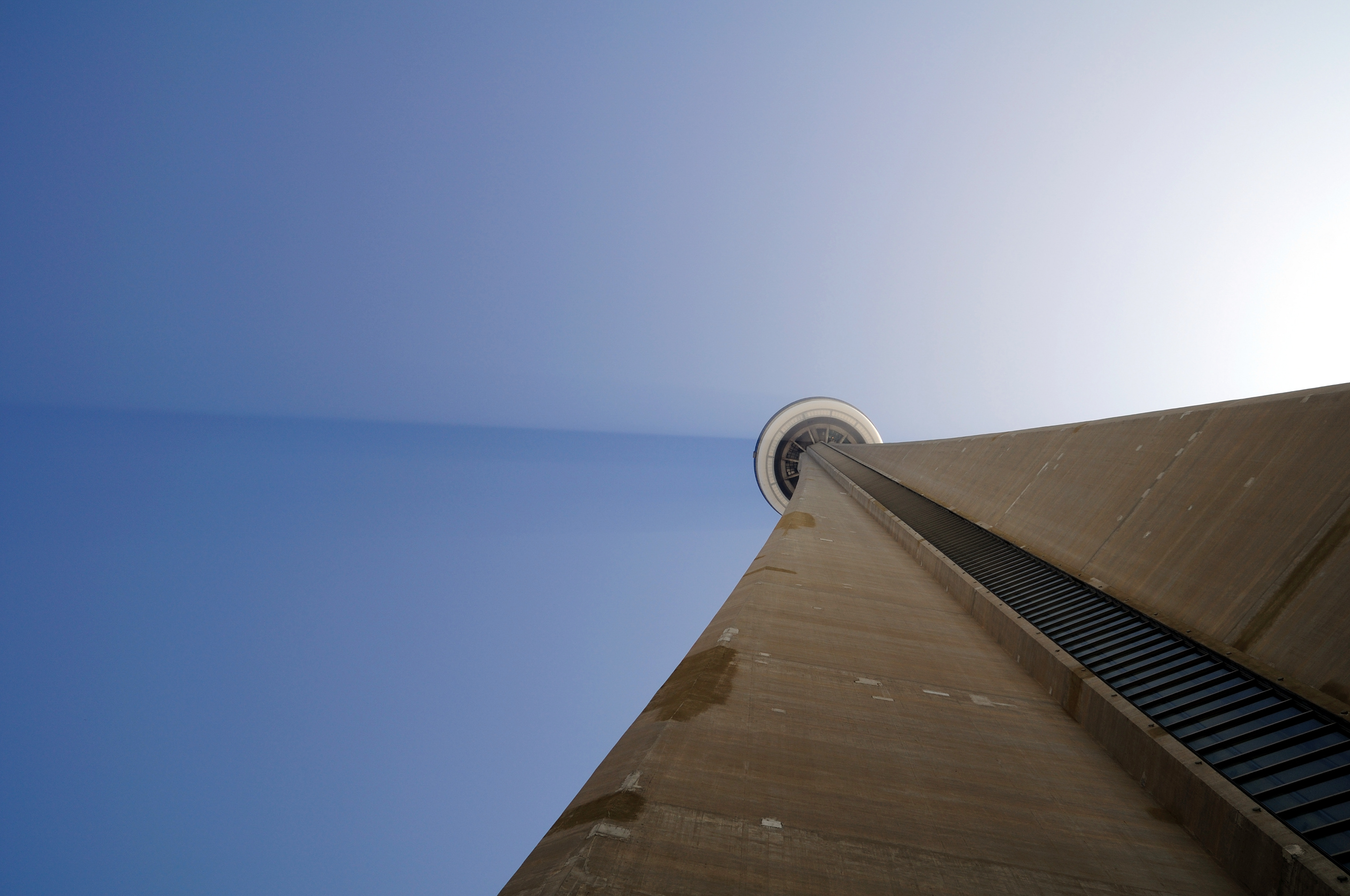 Tyndall effect at CN Tower, Toronto